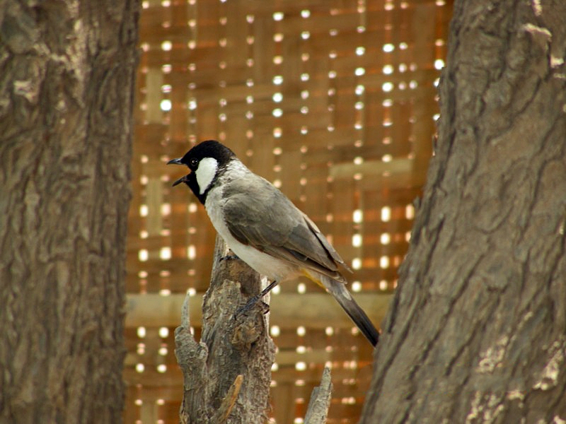 Wite-eared Bulbul, Pycnonotus leucotis, is found in the hills and deserts of India. Self-work. Shot in my garden at my desert home in Rajasthan. Shot by AshLin. Uploaded by Nature Loader 03:15, 6 May 2006 (UTC)